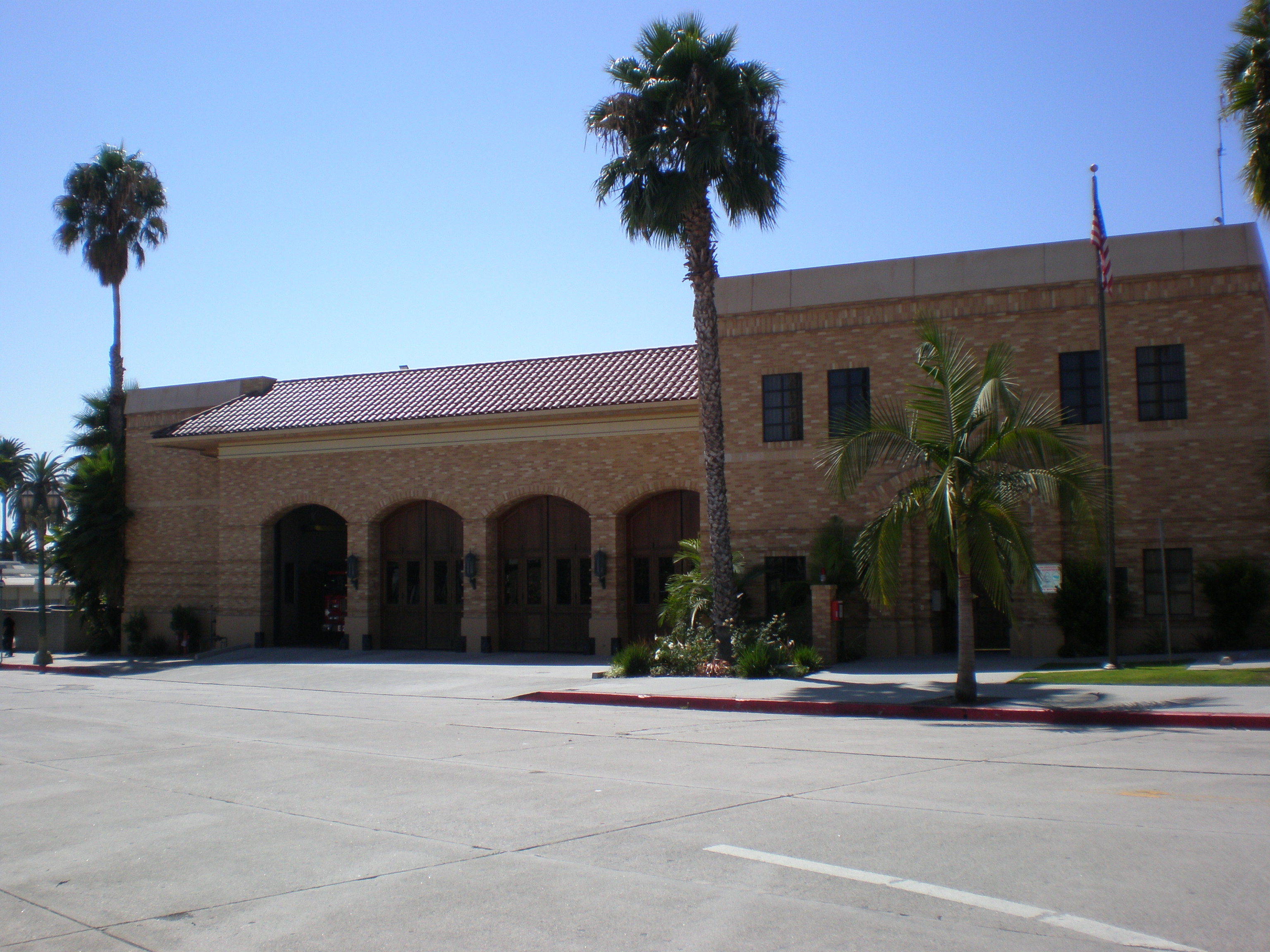 LAFD Fire Station # 27 in Hollywood in Los Angeles, Ca